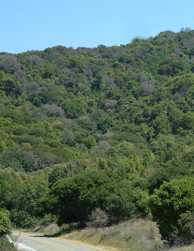 Coast Live Oaks killed by Phytophthora ramorum disease, Marin County, California